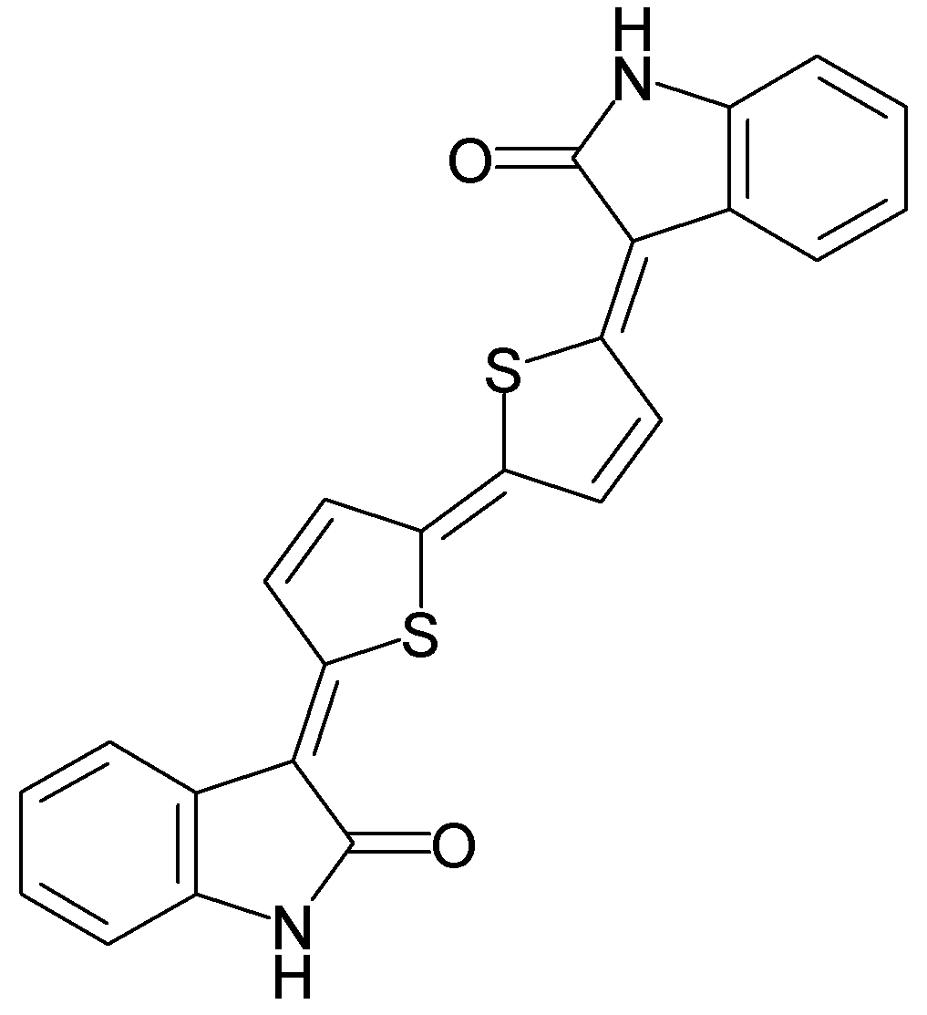 Indophenin